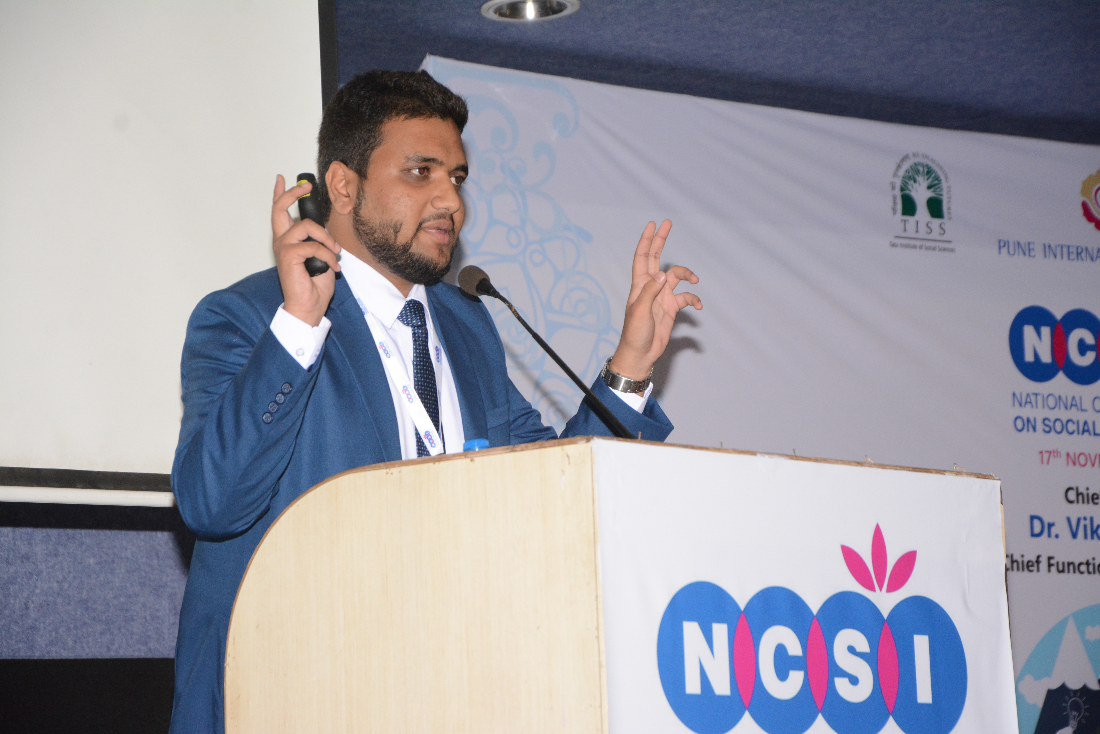 at NCSI